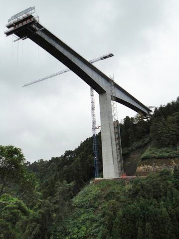 Viaduto Despe-te que suas em construção